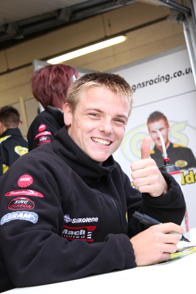 Sam Lowes